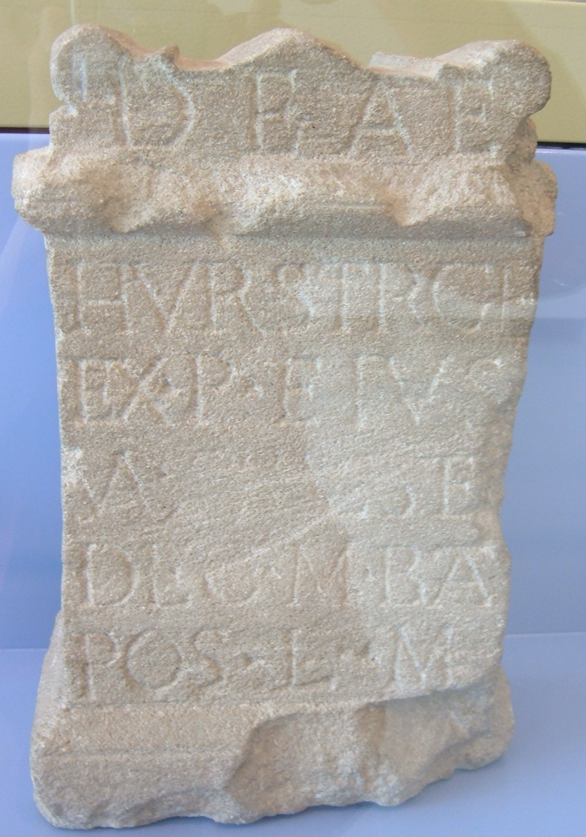 Votive altar for the goddess Hustrge (to the) Goddess Hustrge and on her orders Valerius Silvester, decurio (council) of the Municipium Batavorum has erected this altar, freely and deservedly. (AD. 151-250). DEAE HURSTRGE Ex P(raecepto) EIUS VAL(erius) SILVESTE[r] DEC(urio) M(unicipii) BAT(avorum) POS(uit) L(ibens) M(erito) (Bogaers, BROB, p. 287-290 (AE 1958, 38= 1959, 10, EDH:HD019129) Found in the vinicity of Tiel, the Netherlands, Museum Het Valkhof, Nijmegen, The Netherlands. Museum Het Valkhof Native nameMuseum Het ValkhofLocationNijmegen Address Kelfkensbos 596511 TB NijmegenNetherlandsCoordinates51° 50′ 47″ N, 5° 52′ 16″ E Established1999Web page control : Q1127079 VIAF: 158715438 ISNI: 0000 0004 0533 6734 LCCN: no2002025807 GND: 5519052-2 SUDOC: 075891700 WorldCat institution QS:P195,Q1127079